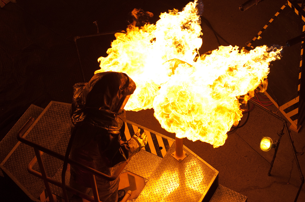 Dance Dance Immolation mid immolating a player